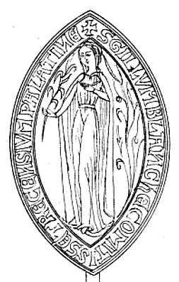 Blanca of Navarra (1177-1229)